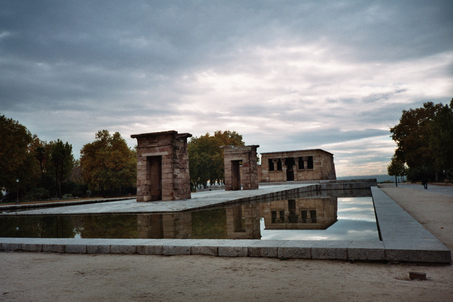 Description: View of the Temple of Debod of Madrid. Source: Self-made, I release it into the public domain.